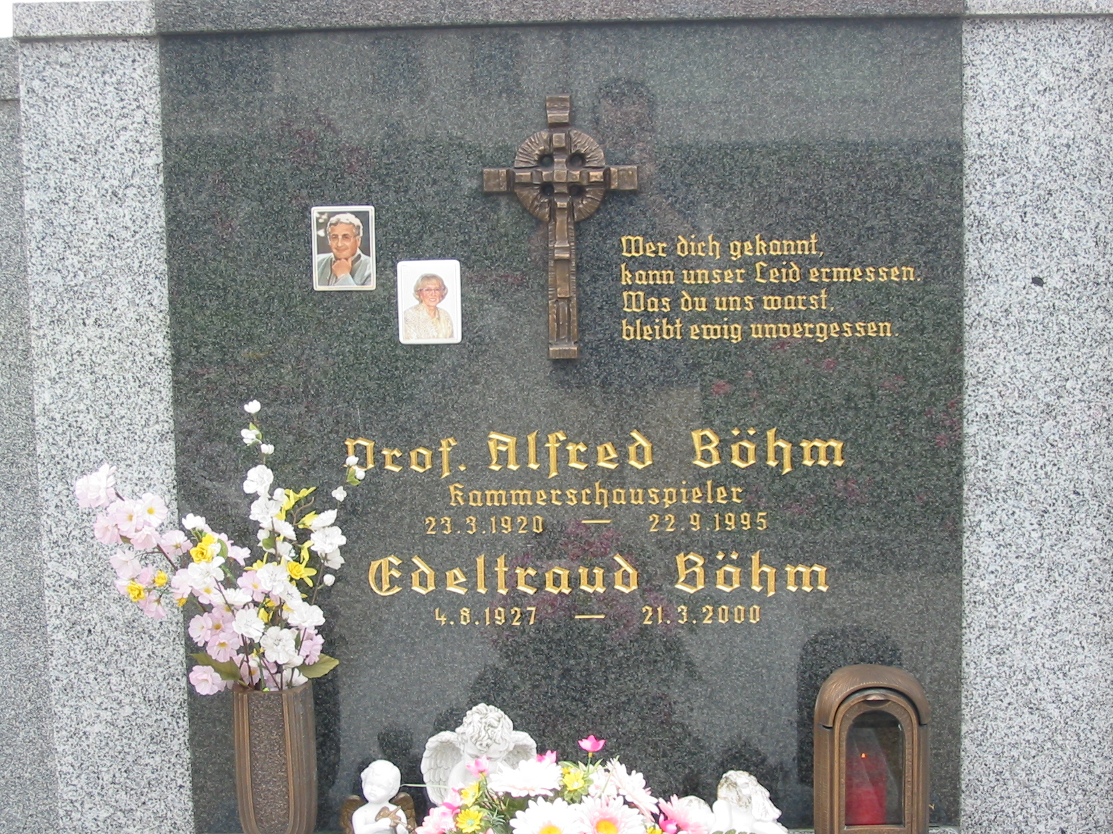 Grave of Prof. Alfred Böhm and Edeltraud Böhm in Wieselburg.